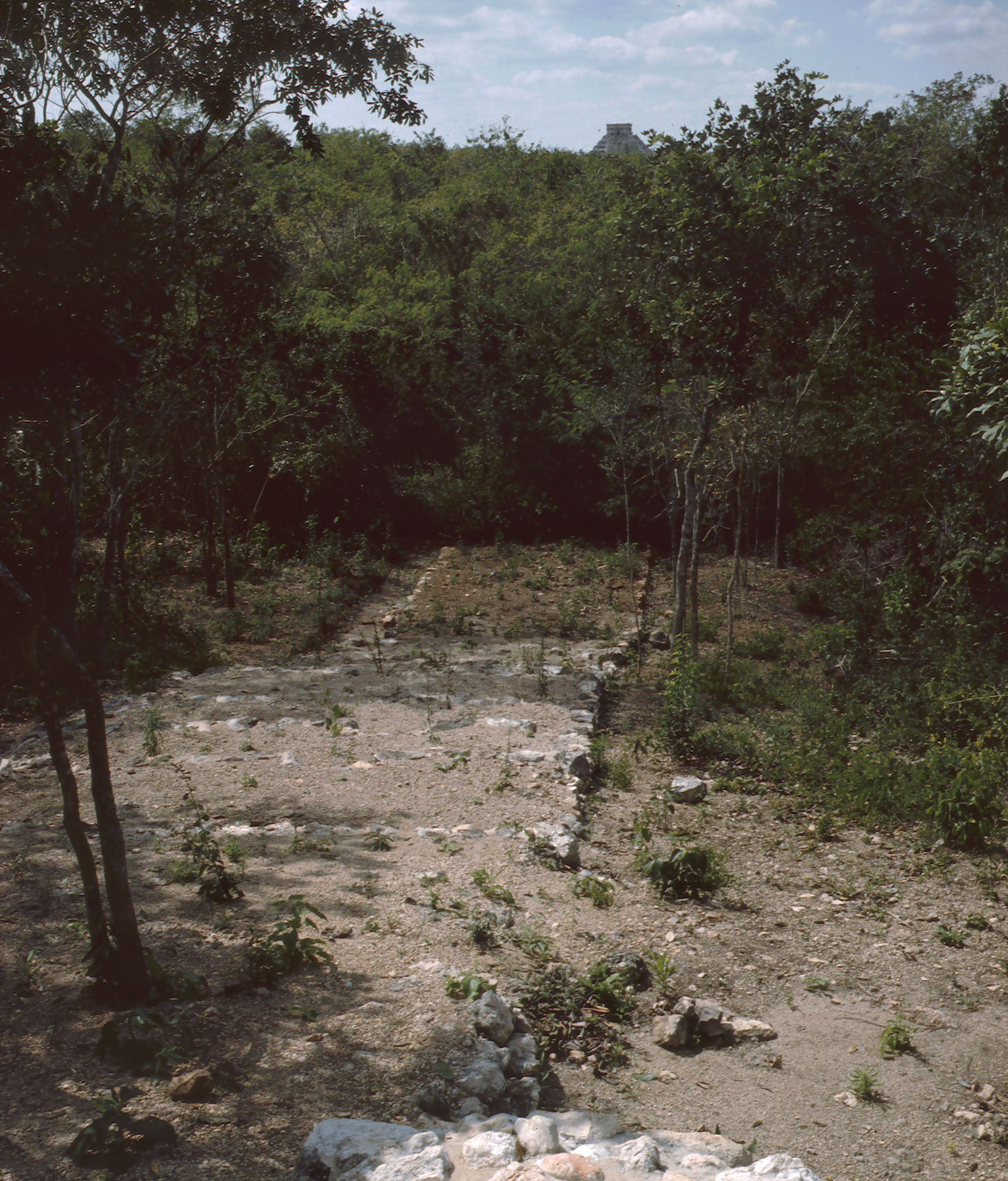 Chichen Itza, Yucatan, Mexico. Chultun group, local sacbé.